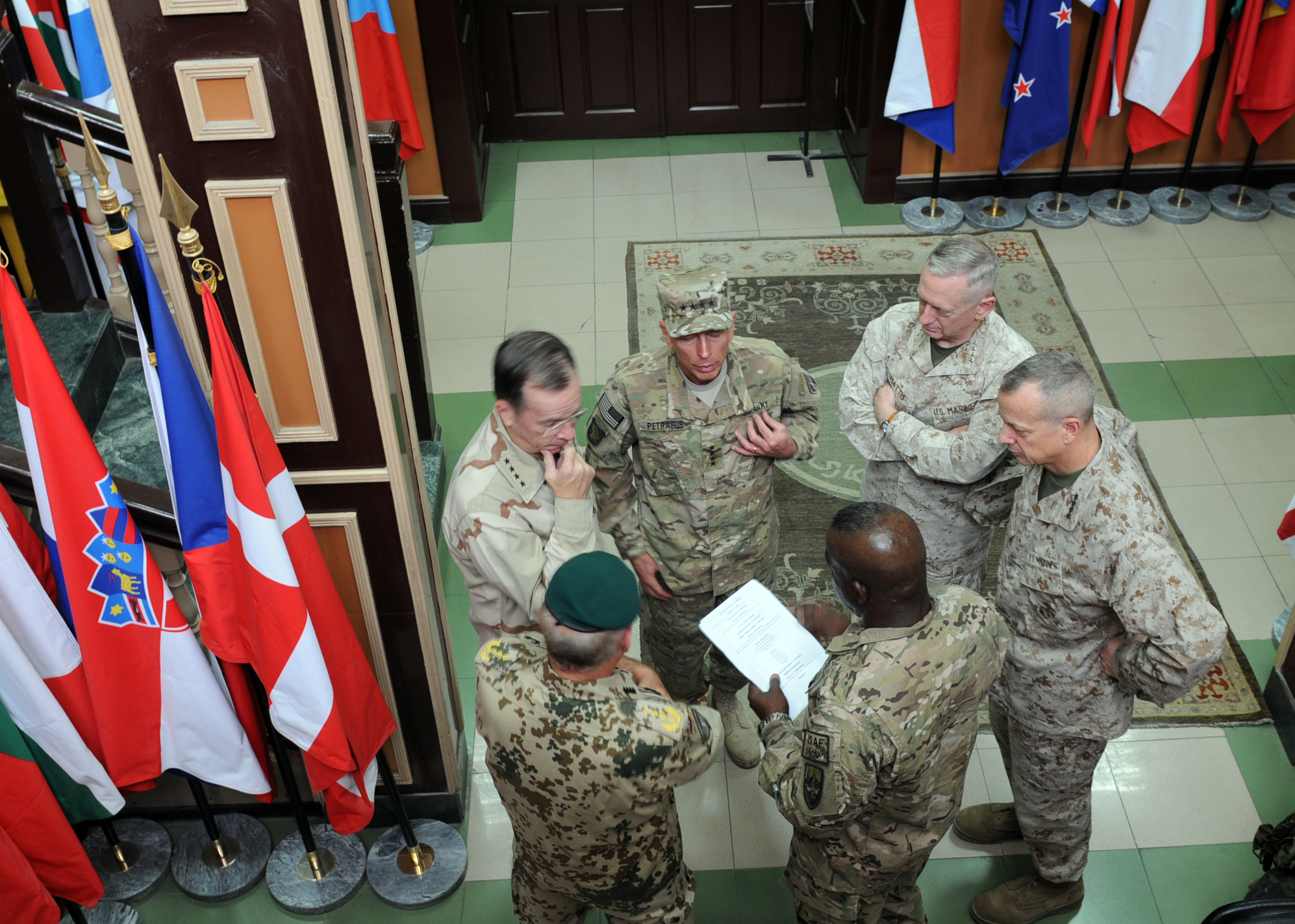 Army Command Sgt. Maj. Marvin L. Hill, International Security Assistance Force/U.S. Forces Afghanistan, goes over final event details for the July 18, 2011, ISAF Change of Command Ceremony with German Army Gen. Wolf Langheld, Commander, Joint Force Command Brunssum; Navy Adm. Mike Mullen, Chairman of the Joint Chiefs of Staff; Army Gen. David H. Petraeus, outgoing Commander ISAF/USFOR-A; Marine Corps Gen. James N. Mattis, Commander, U.S. Central Command; and Marine Corps Gen. John R. Allen, incoming ISAF/USFOR-A Commander.